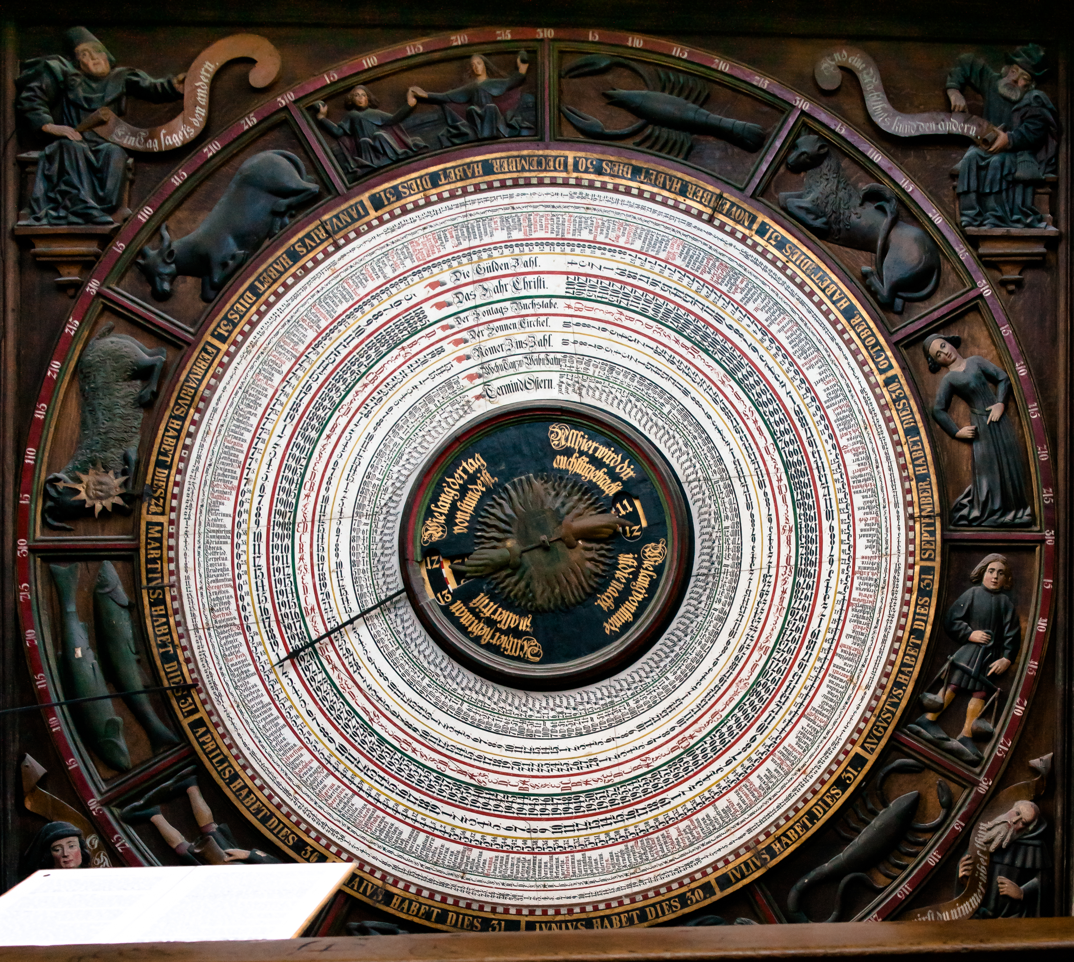 The medieval astronomical clock at St. Mary's Church with calender sheet from 1885 to 2017, Rostock.